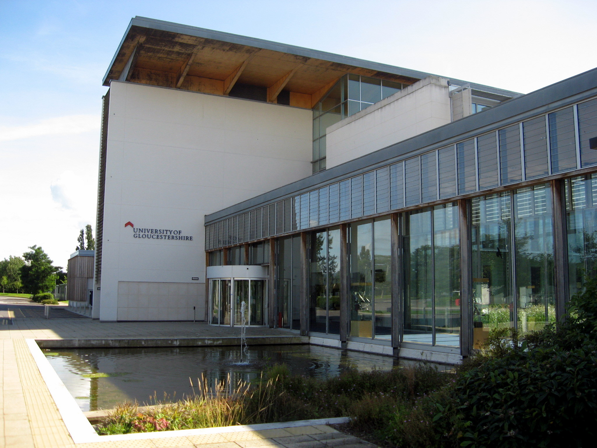 Oxstalls campus of the University of Gloucestershire